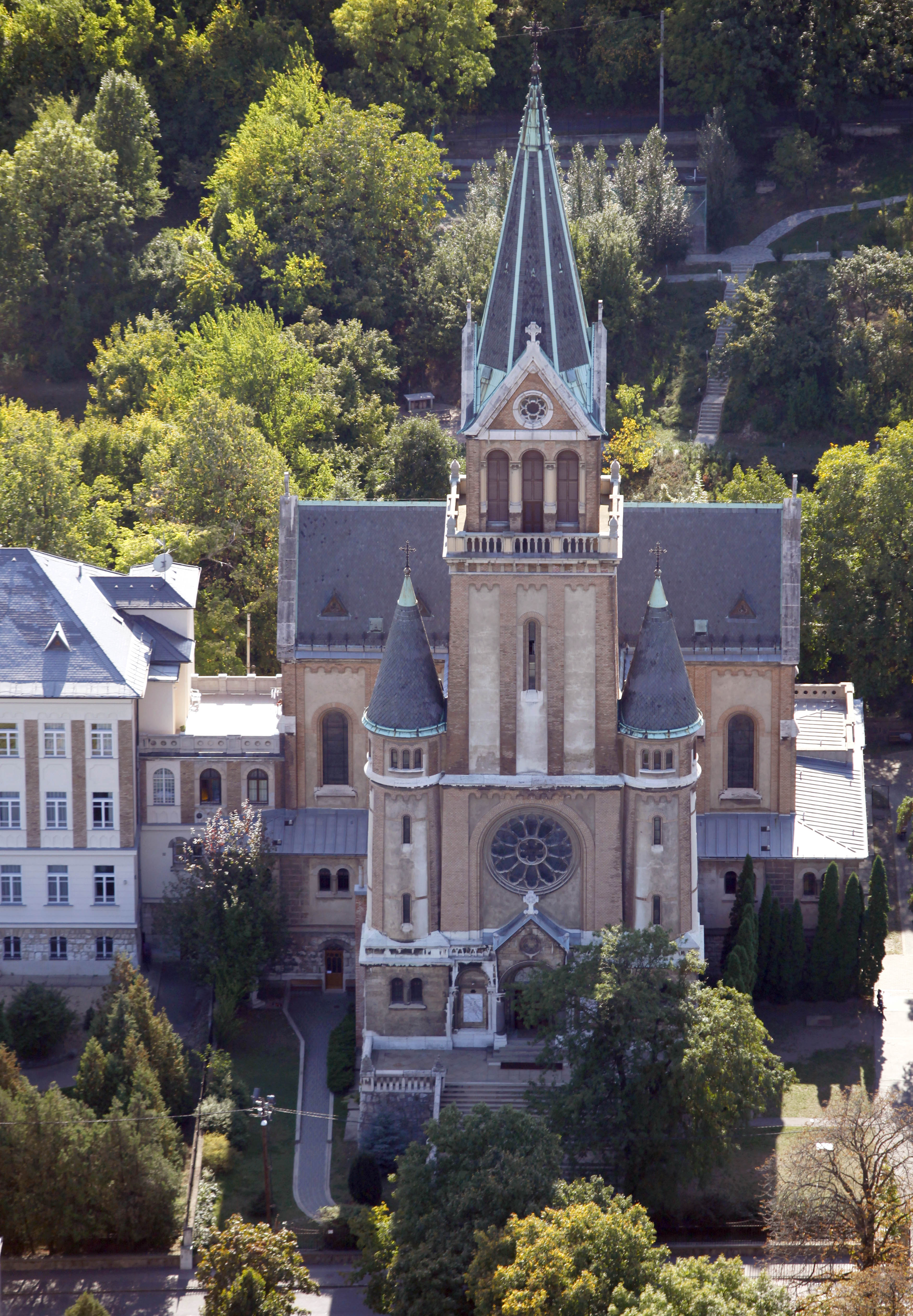 Church, Hungary, aerial photgraphy, Budapest